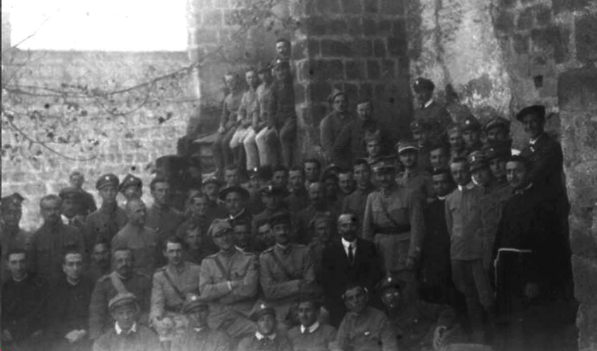 Officers of Polish Army in Italy, Santa Maria Capua Vetere, 1918.